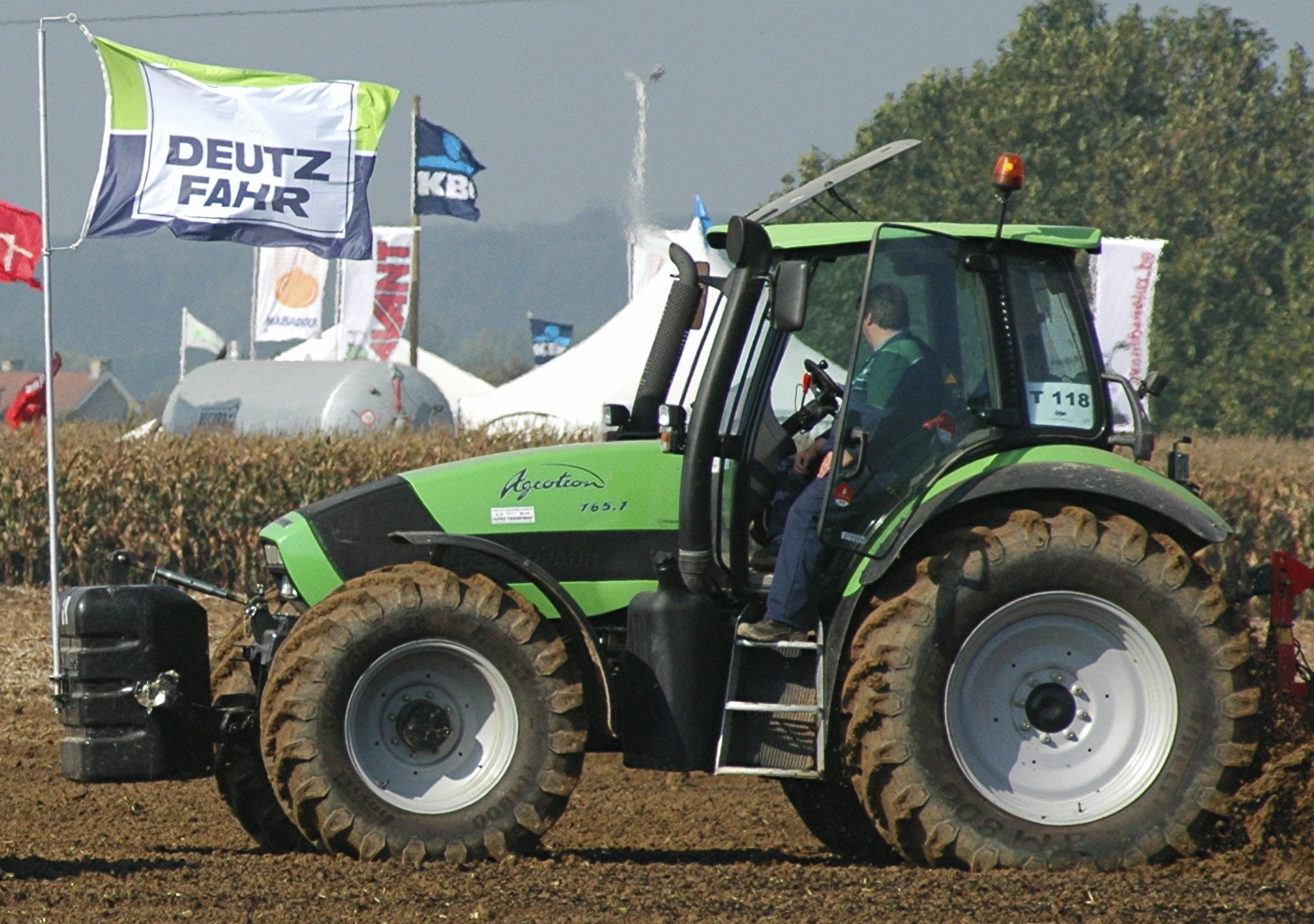 Deutz-Fahr Agrotron 165.7 at Werktuigendagen 2007